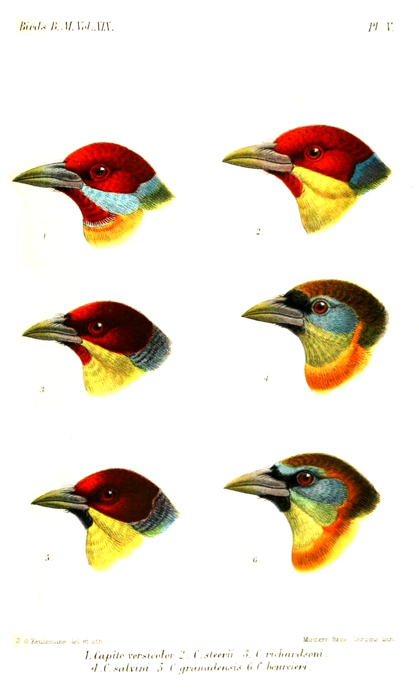 Versicoloured Barbet (top row) - Lemon-throated Barbet (center/bottom left) - Red-headed Barbet (center/bottom right)